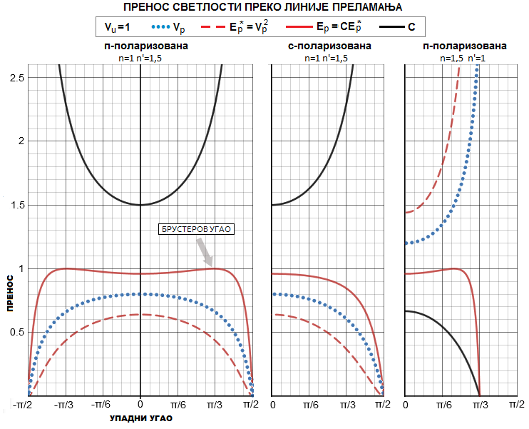 ПРЕНОС СВЕТЛОСТИ